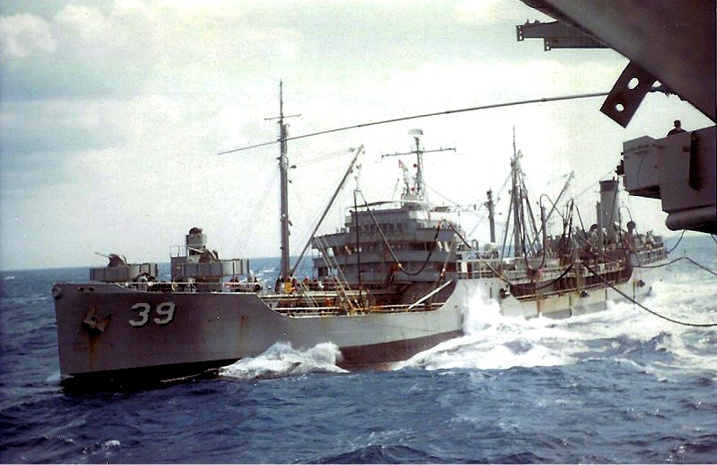 The U.S. Navy fleet oiler USS Kankakee (AO-39) refueling the aircraft carrier USS Wasp (CVS-18) in the North Atlantic, in 1968-1969.